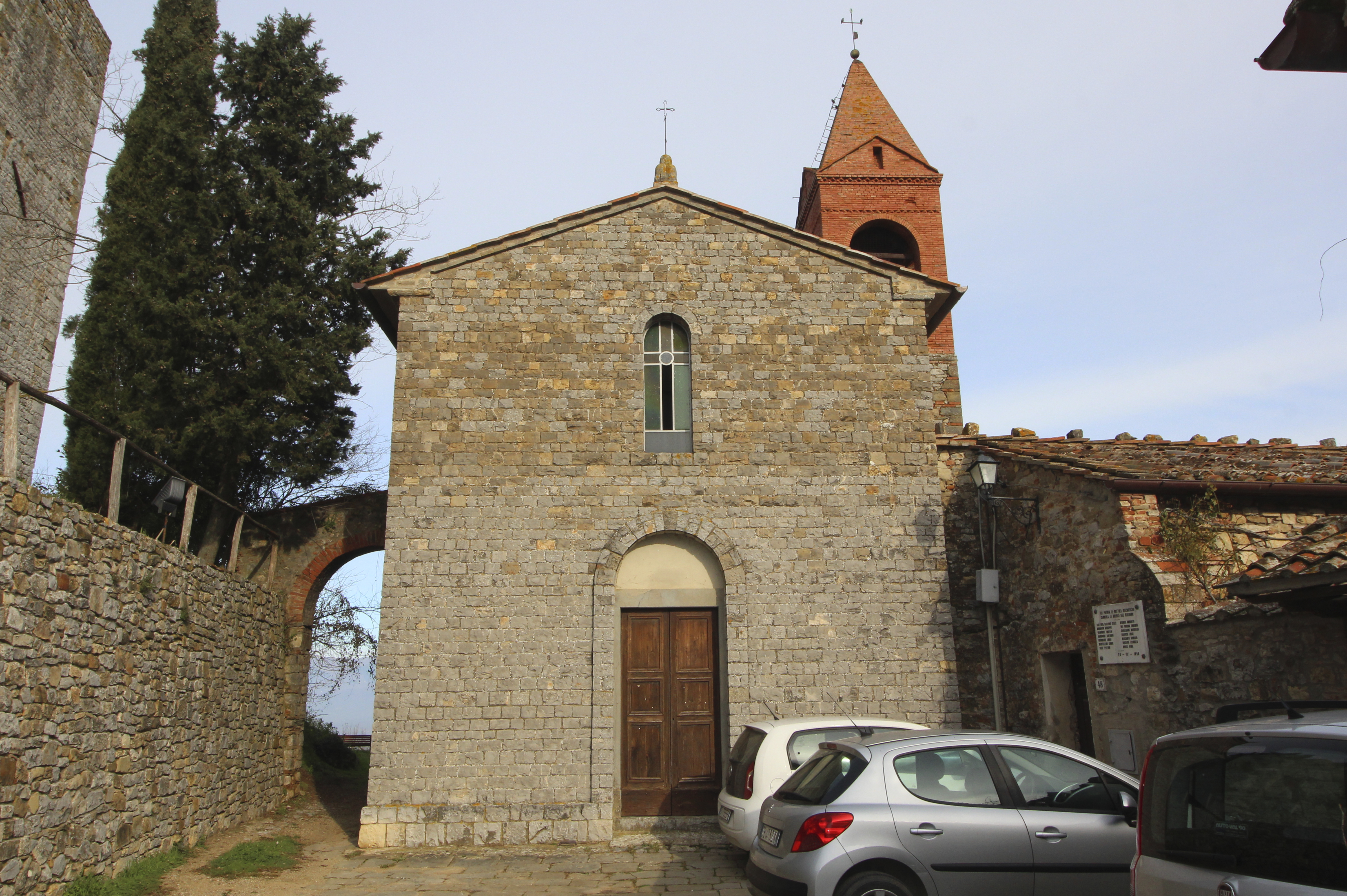 Church San Pietro, Cennina, hamlet of Bucine, Province of Arezzo, Tuscany, Italy